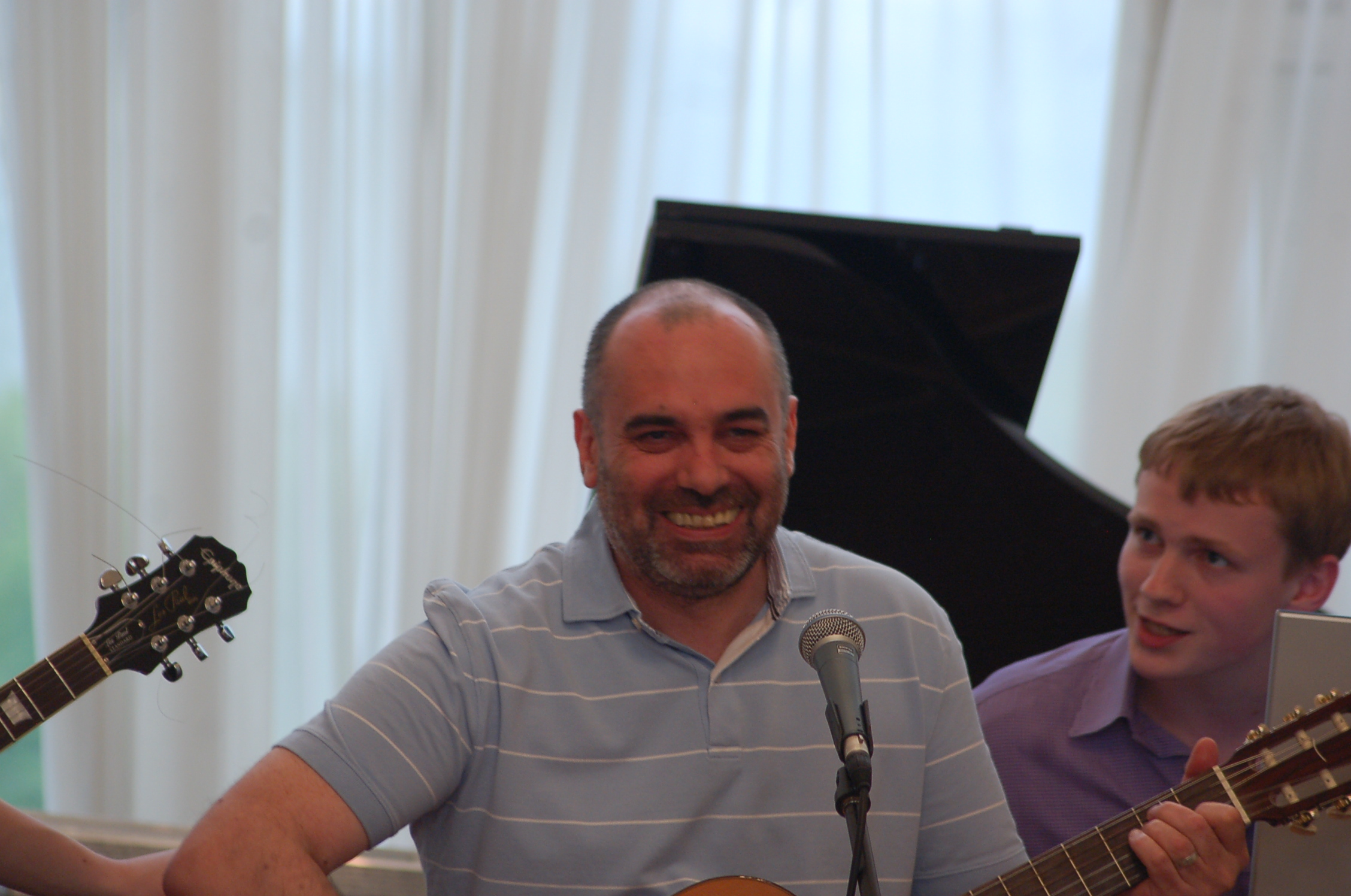 Boris_Minaev